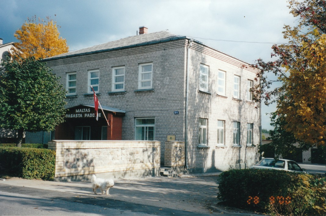 Malta parish administration